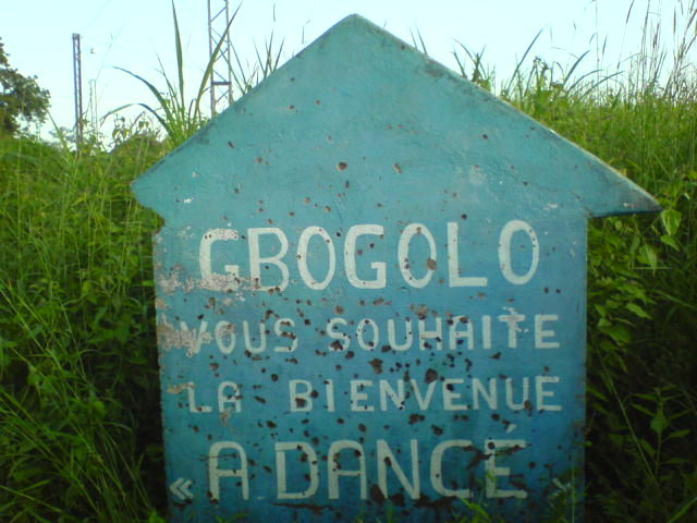 Plaque indiquant l'entrée du village de Gbogolo